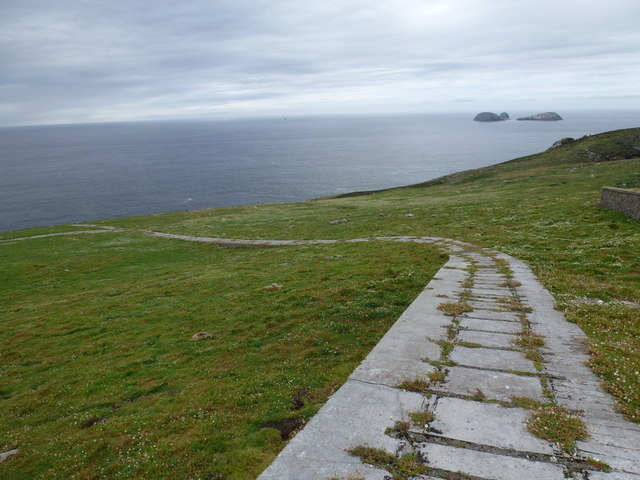 Flannan Isles: southwest from the lighthouse